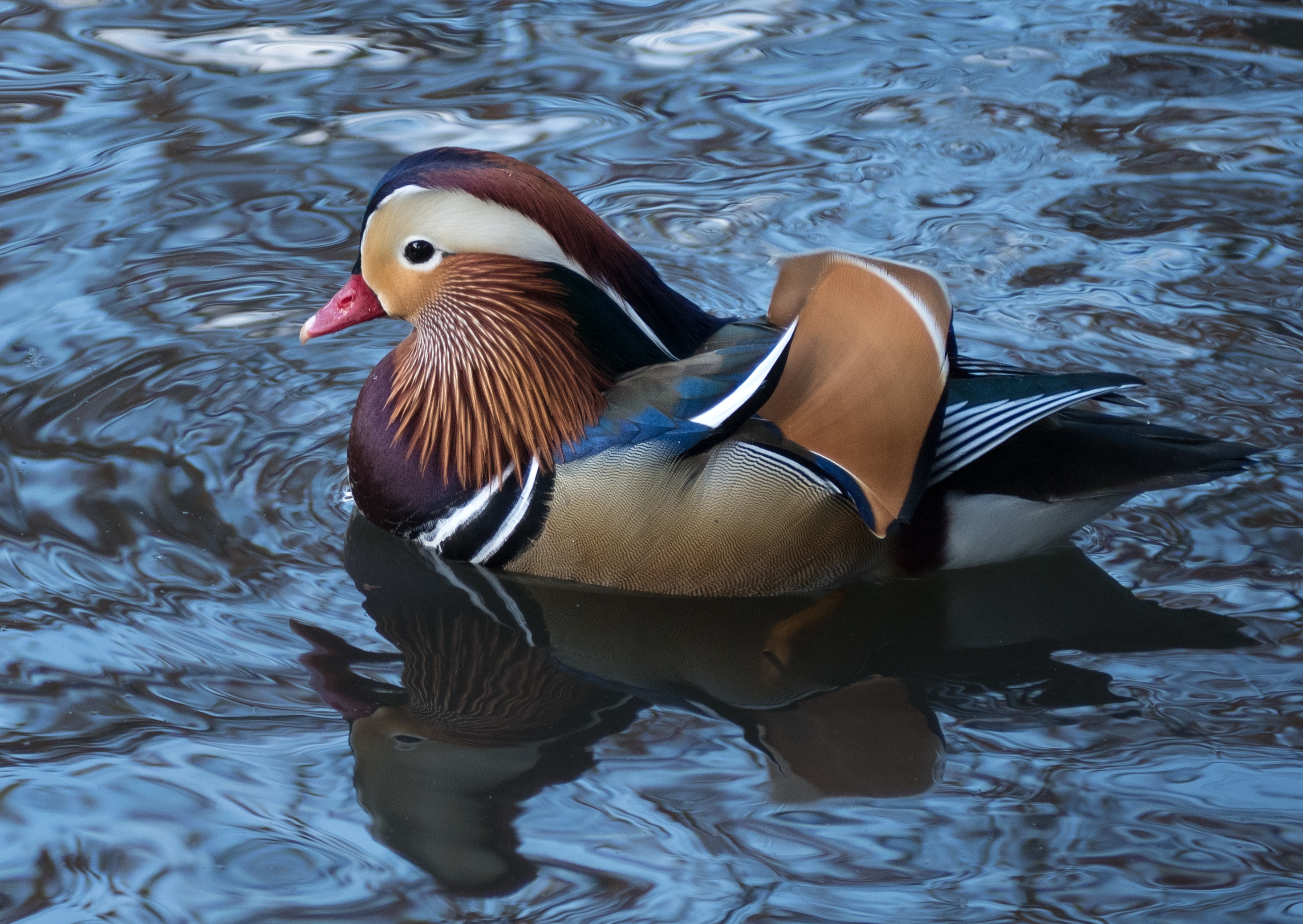 In October 2018, a Mandarin duck (Aix galericulata) appeared in Central Park in New York. There is no clear answer as to how it, a bird not typically seen on this side of the planet, managed to get here.